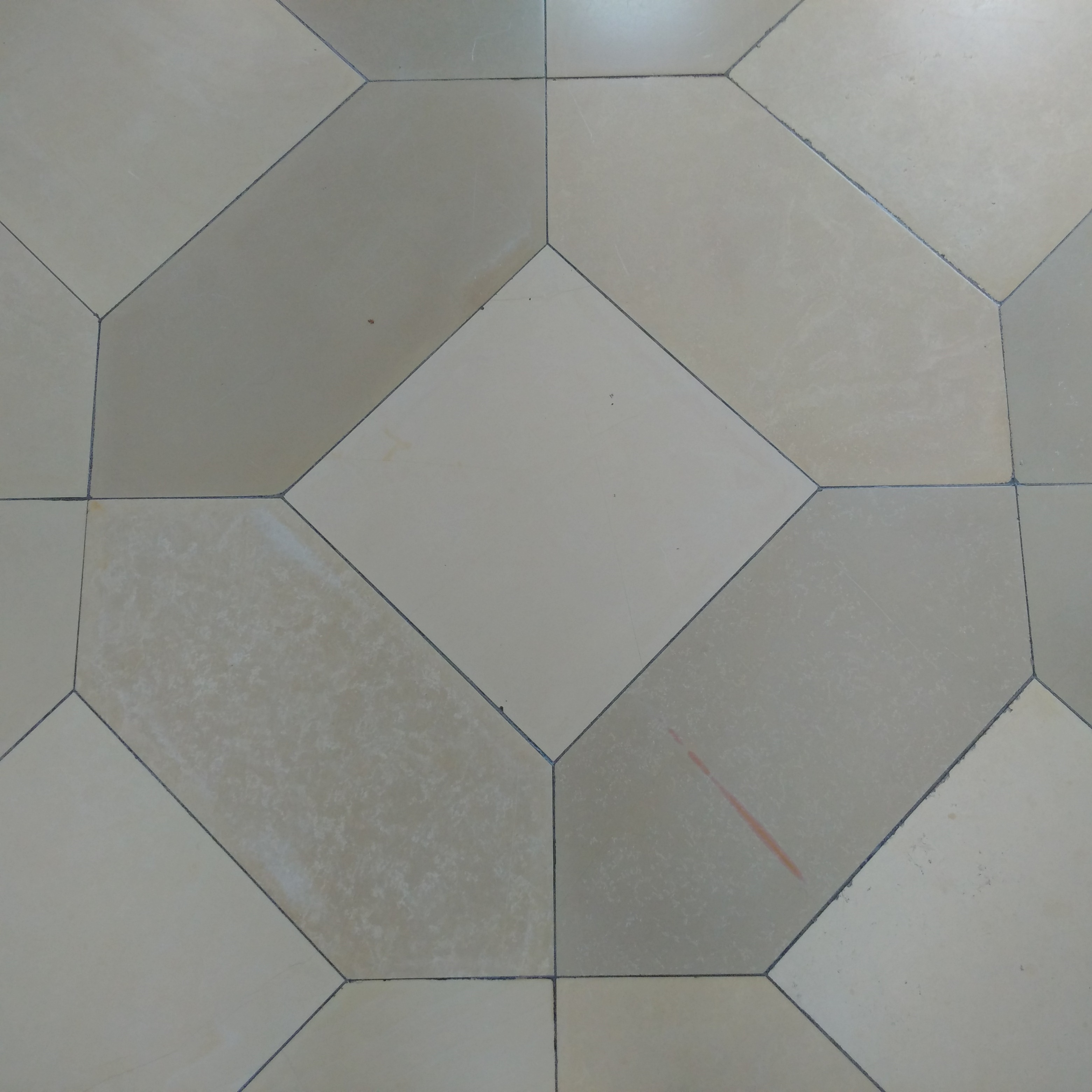 Rosenspitz